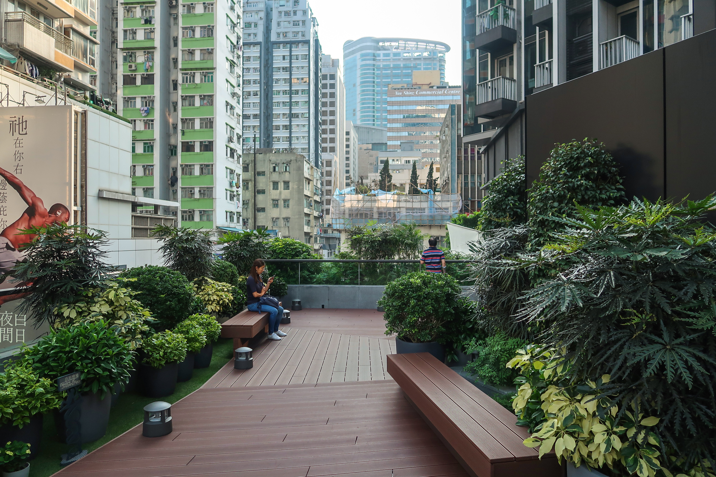 The FOREST roof top garden